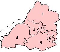 Districts in the former County of Avon (1974-1996) Northavon Bristol Kingswood Woodspring Wansdyke Bath Created & uploaded by Keith Edkins